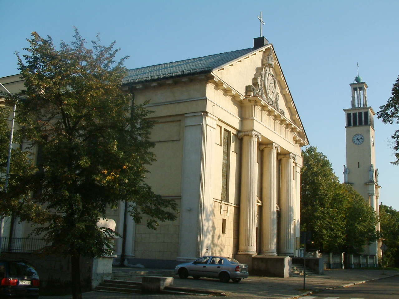 Church of Lord's Ressurection in Poznań